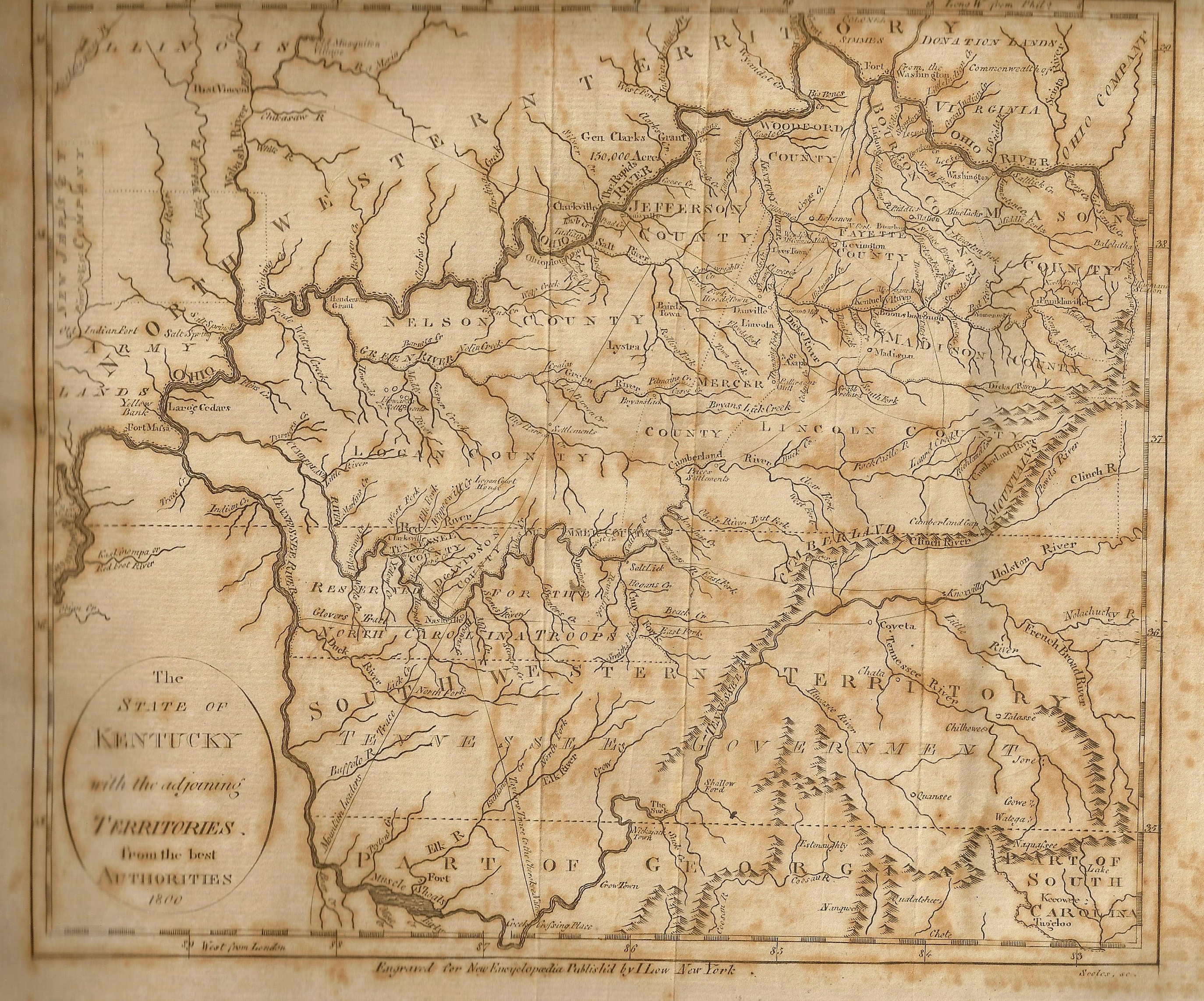 Lows Map of Kentucky and neighboring Territories